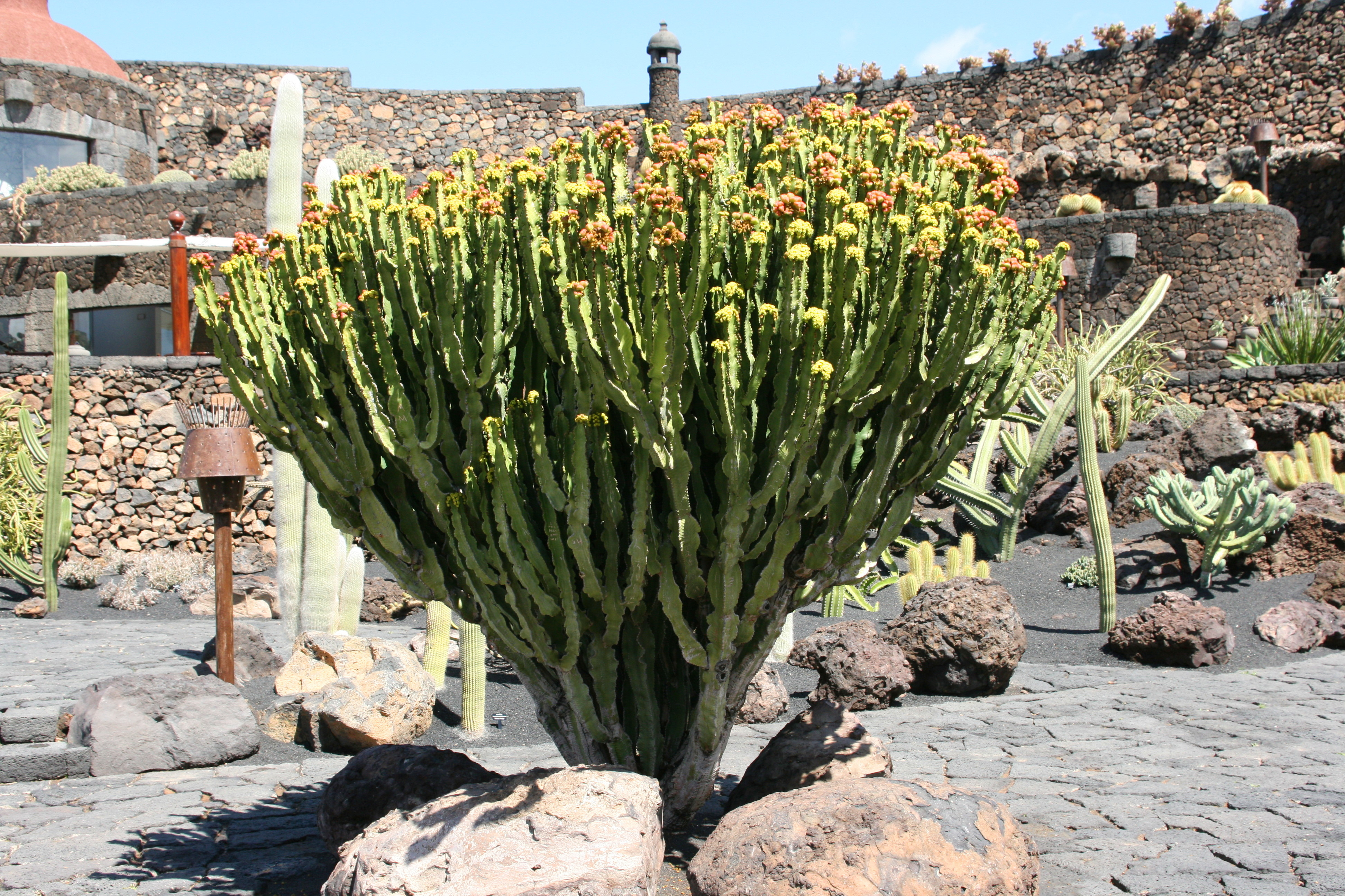 Euphorbia abyssinica grown in the Botanical Garden “Jardin de Cactus” in Guatiza, Teguise, Lanzarote, Canary Islands